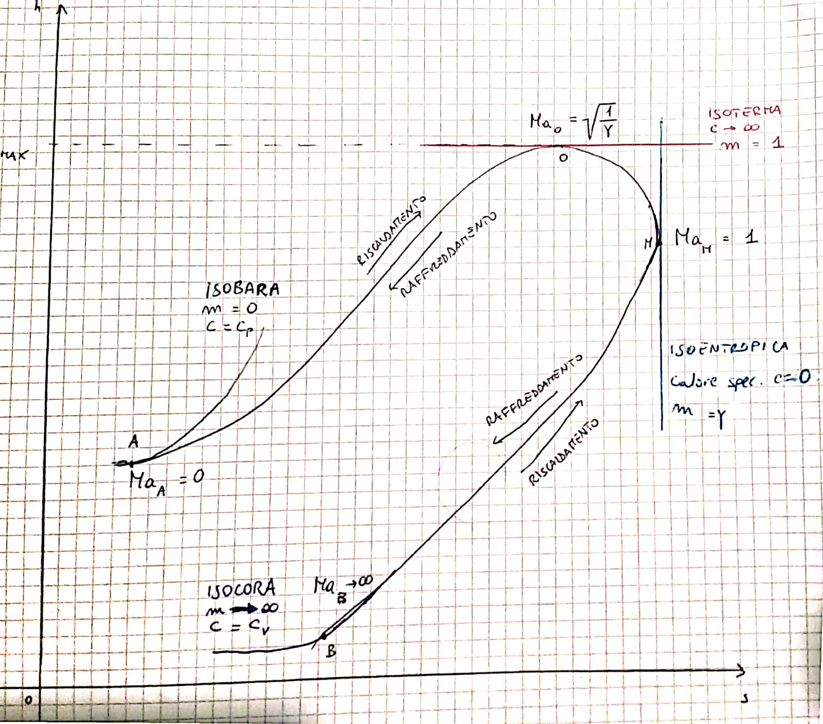 Approximation of Rayleigh curve by polytropic transformations